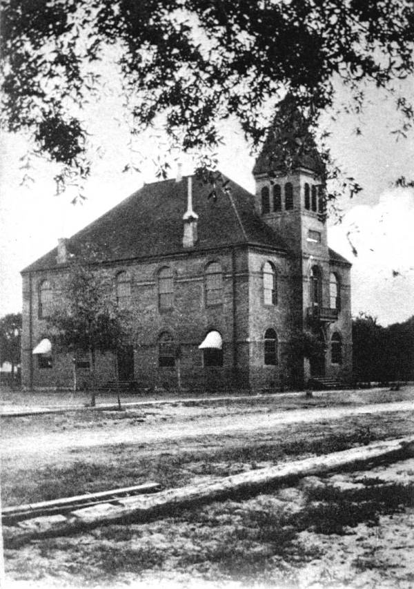 Lake County Courthouse, in Tavares, Florida